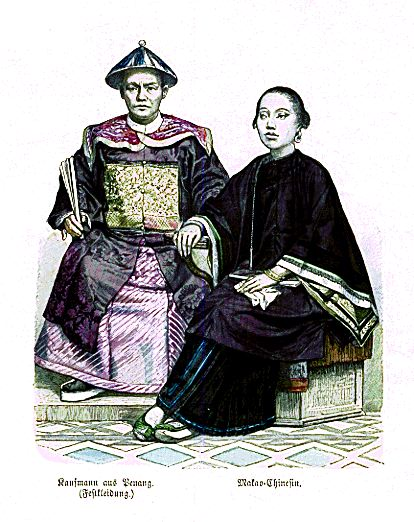 A Chinese merchantman from Penang and a Chinese woman from Macao in Malaysia